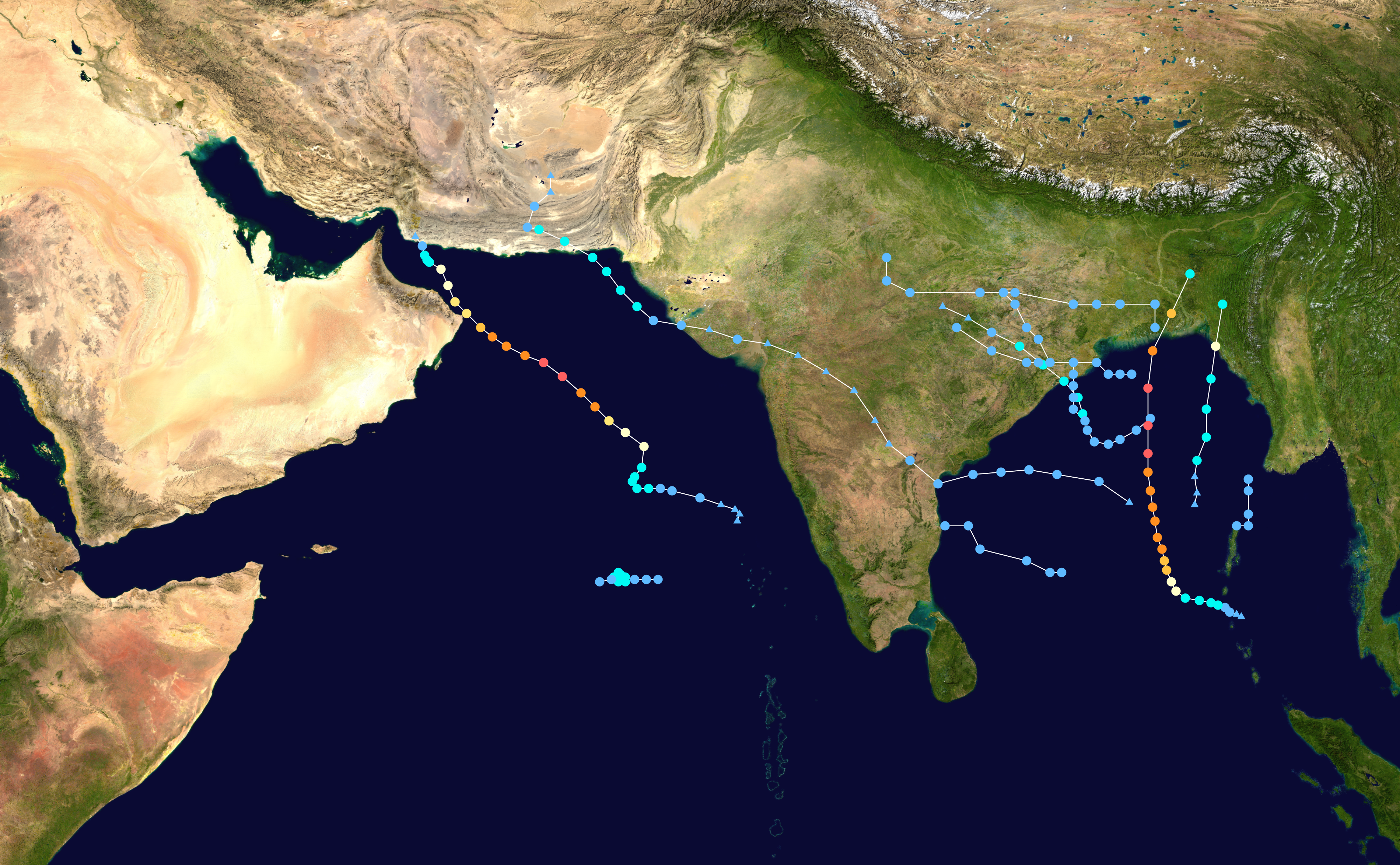 This map shows the tracks of all tropical cyclones in the 2007 North Indian Ocean cyclone season. The points show the location of each storm at 6-hour intervals. The colour represents the storm's maximum sustained wind speeds as classified in the Saffir-Simpson Hurricane Scale (see below), and the shape of the data points represent the type of the storm. Saffir–Simpson scale Tropical depression≤38 mph≤62 km/h Category 3111–129 mph178–208 km/h Tropical storm39–73 mph63–118 km/h Category 4130–156 mph209–251 km/h Category 174–95 mph119–153 km/h Category 5≥157 mph≥252 km/h Category 296–110 mph154–177 km/h Unknown Storm type Tropical cyclone Subtropical cyclone Extratropical cyclone / Remnant low / Tropical disturbance / Monsoon depression